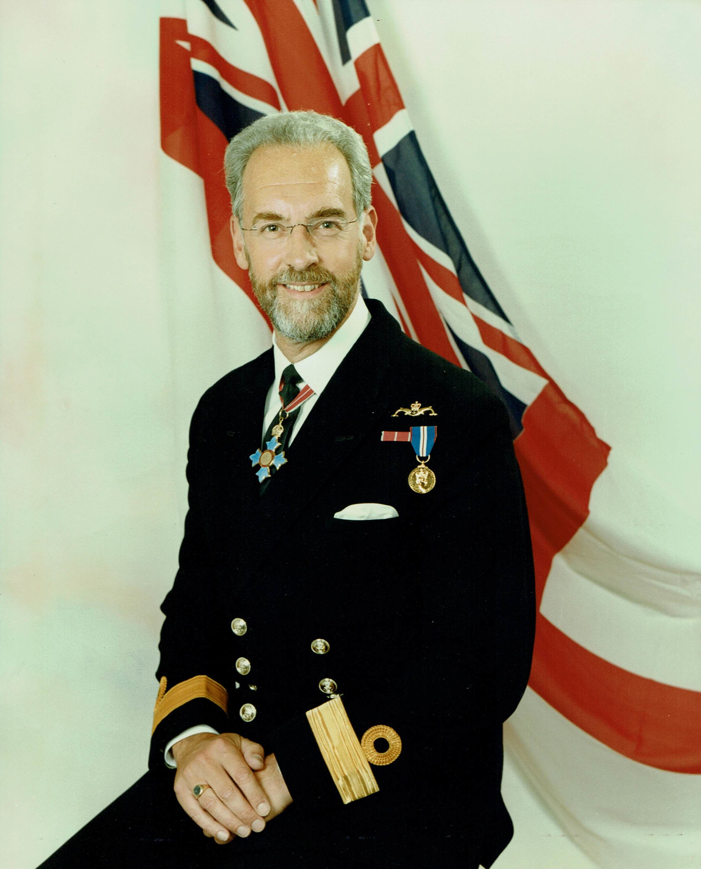 Commodore Laurie Brokenshire CBE, RN in front of White Ensign